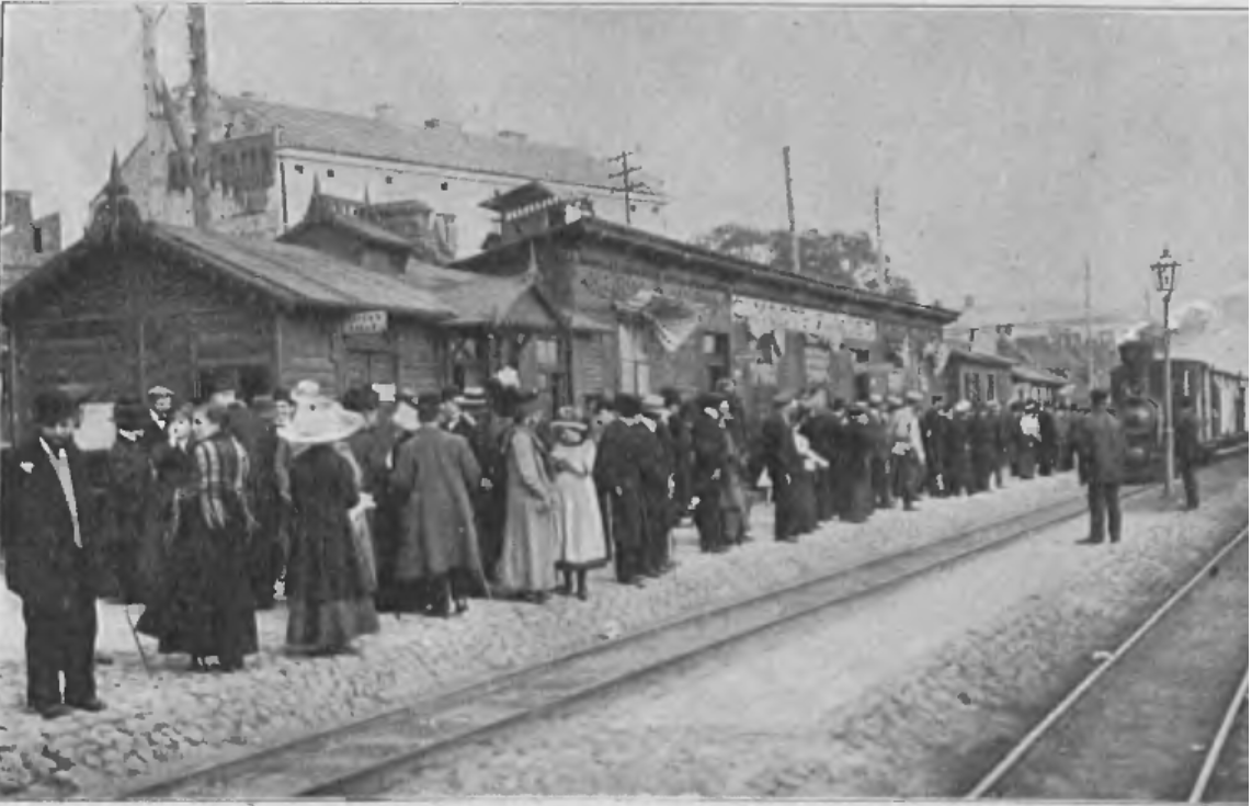 People are waiting for an arriving train on the Warszawa Most station